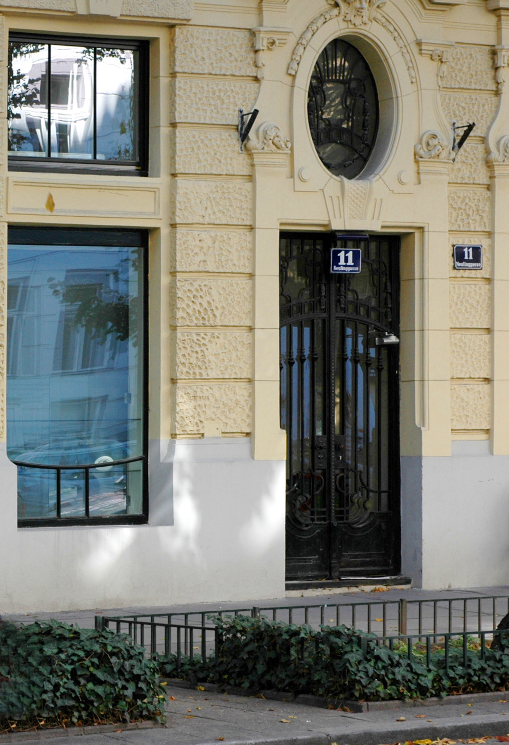 Franz Theodor Csokor, * 6.9.1885 Vienna, † 5.1.1969 Vienna. Austrian novelist and playwright. In 1951, he lived in Vienna 3, Neulinggasse 11. He was again elected President of the Austrian PEN Club from 1947.